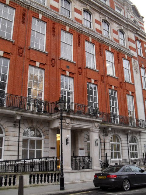 Charles Symonds House in Queen Square